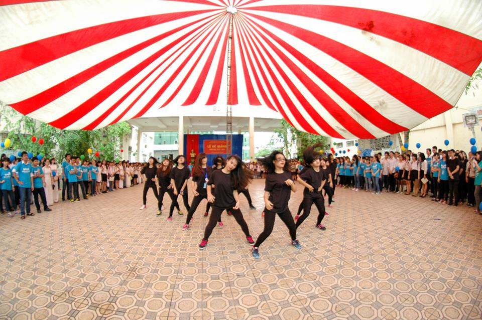 Finale of Dreamory series 2014 - HNUE High School